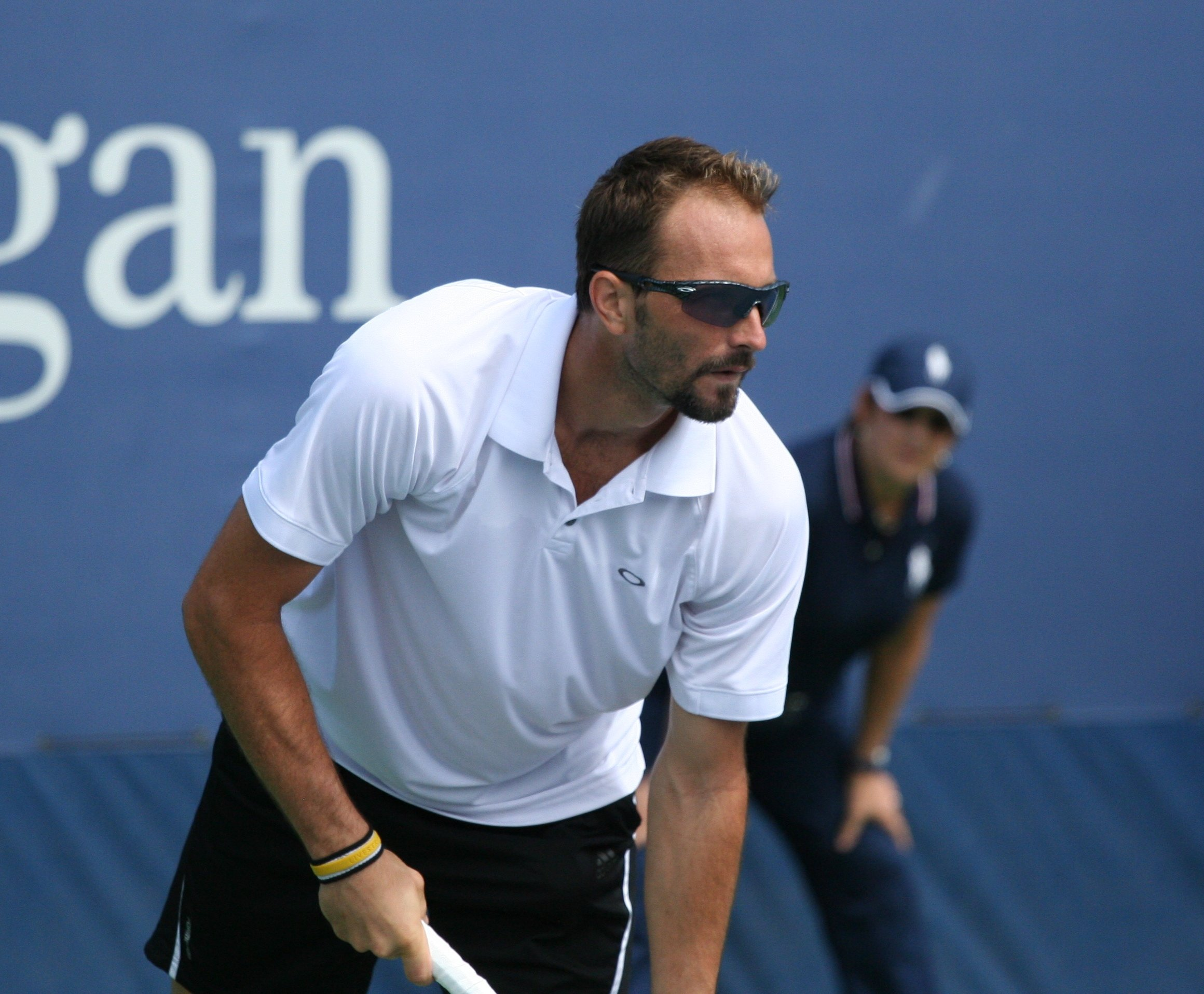 U.S. Open Friday, Sept. 4, 2009